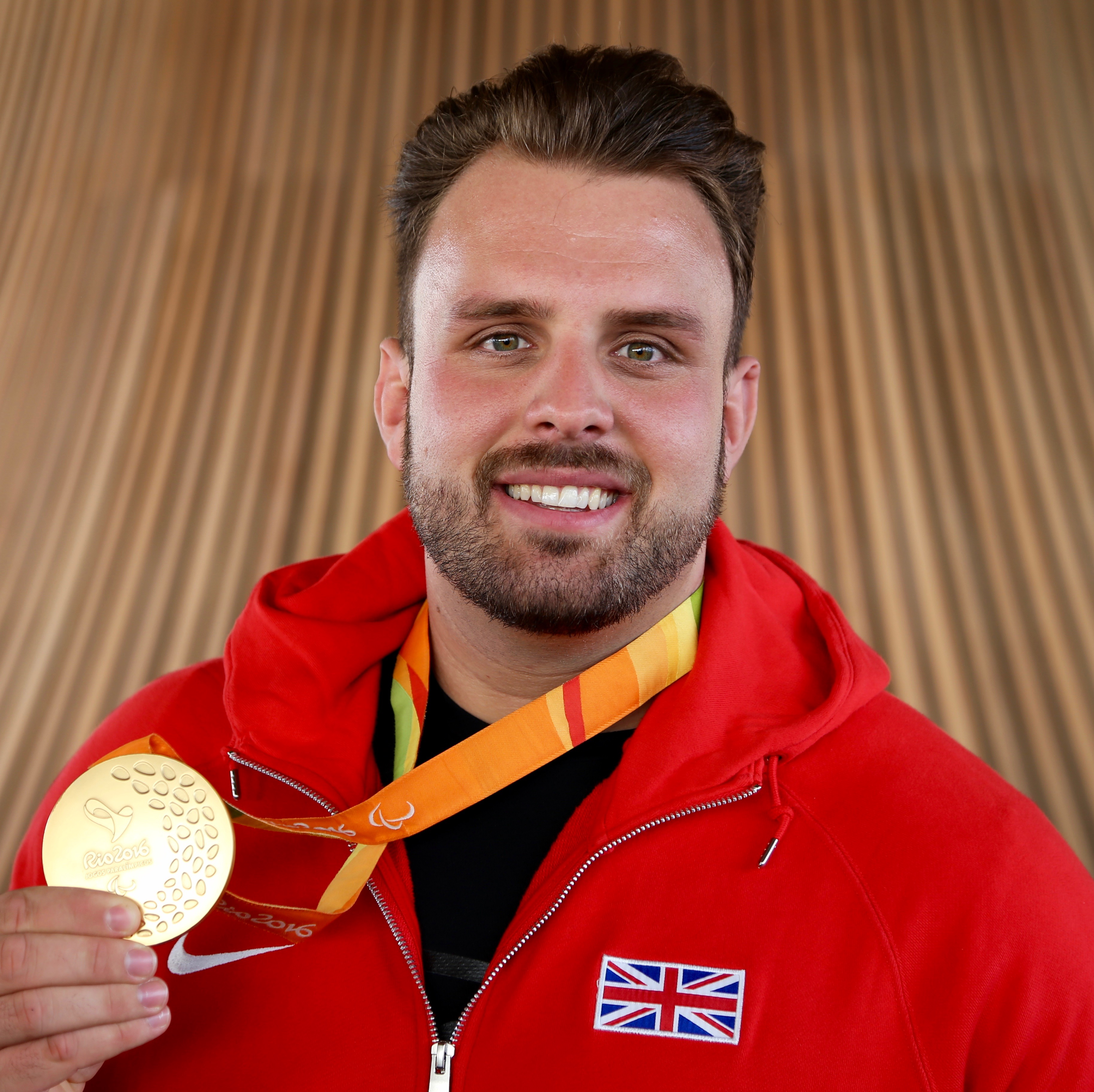 Aled Davies pictured at a homecoming event for Welsh athletes, with his gold medal from the 2016 Summer Paralympics.